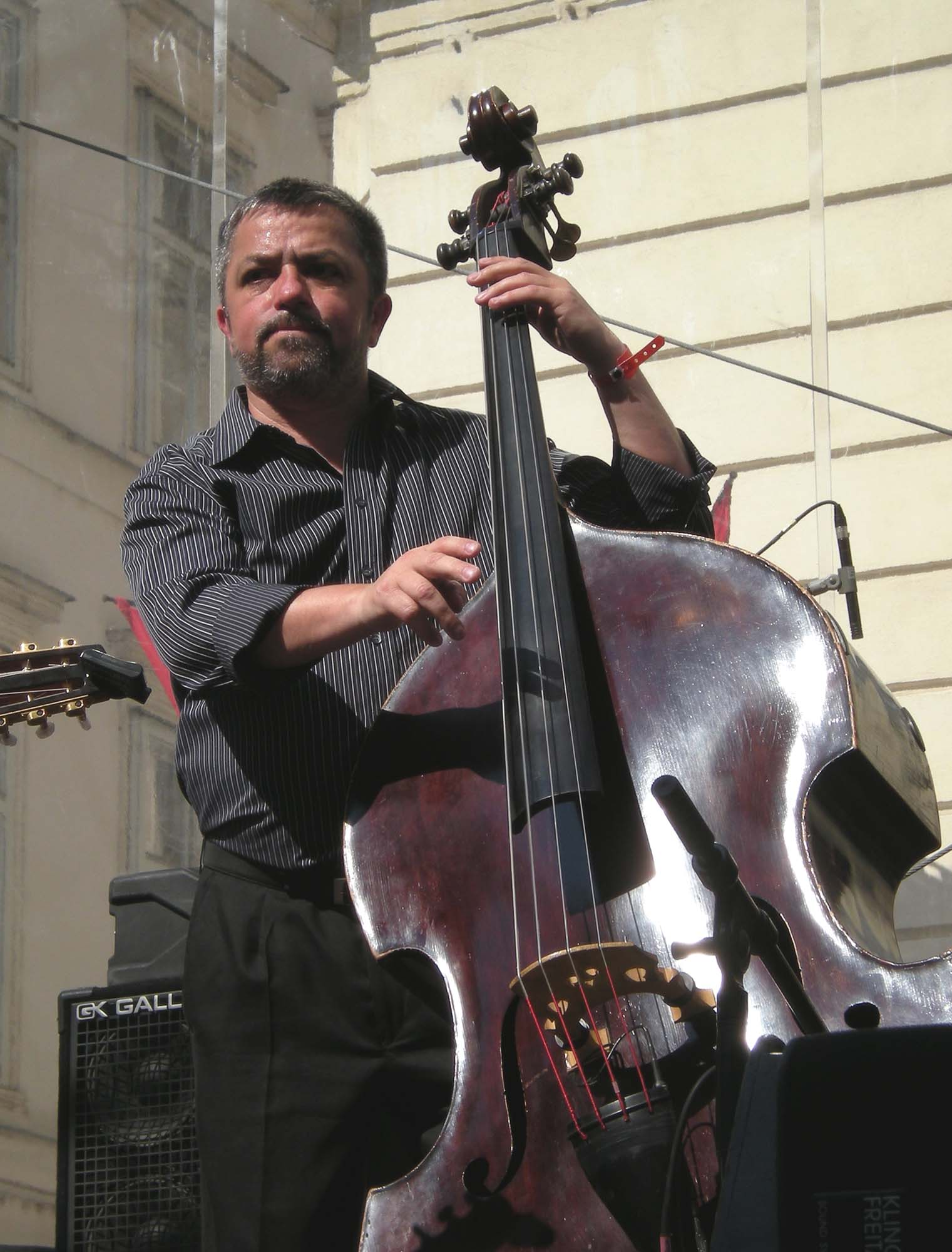 Diknu Schneeberger Trio performing at Vienna's annual Stadtfest. Note: Camera time is set to UTC, which is local time -2.